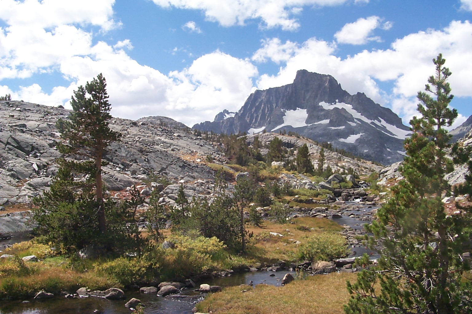 The headwaters of the Middle Fork of the San Joaquin River, with Banner Peak in the background.